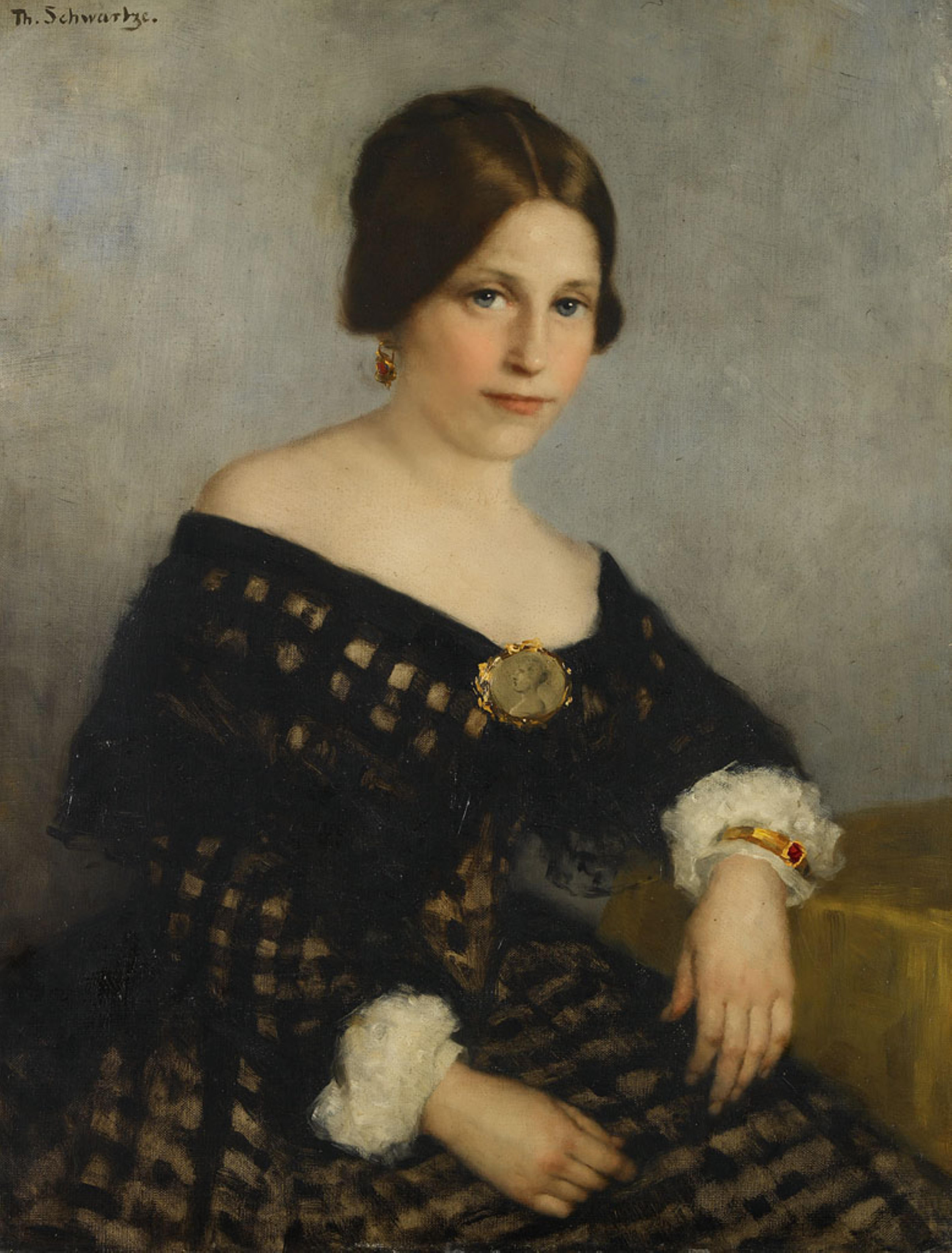 Sophia Adriana de Bruijn (1816-1890), Augustus Pieter Lopez Suasso, foundress of Stedelijk Museum Amsterdam